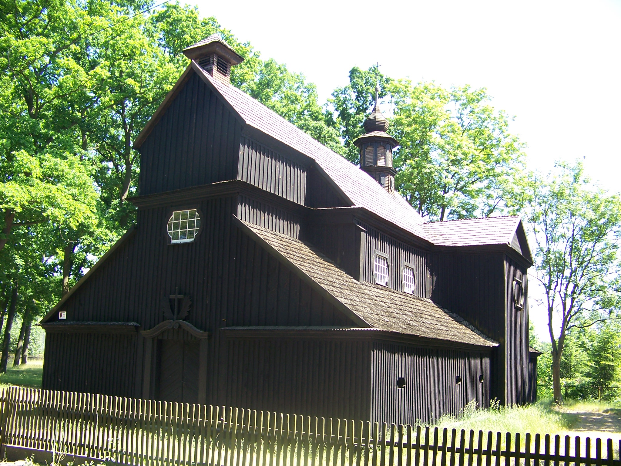 Wooden church in Wełna, Poland